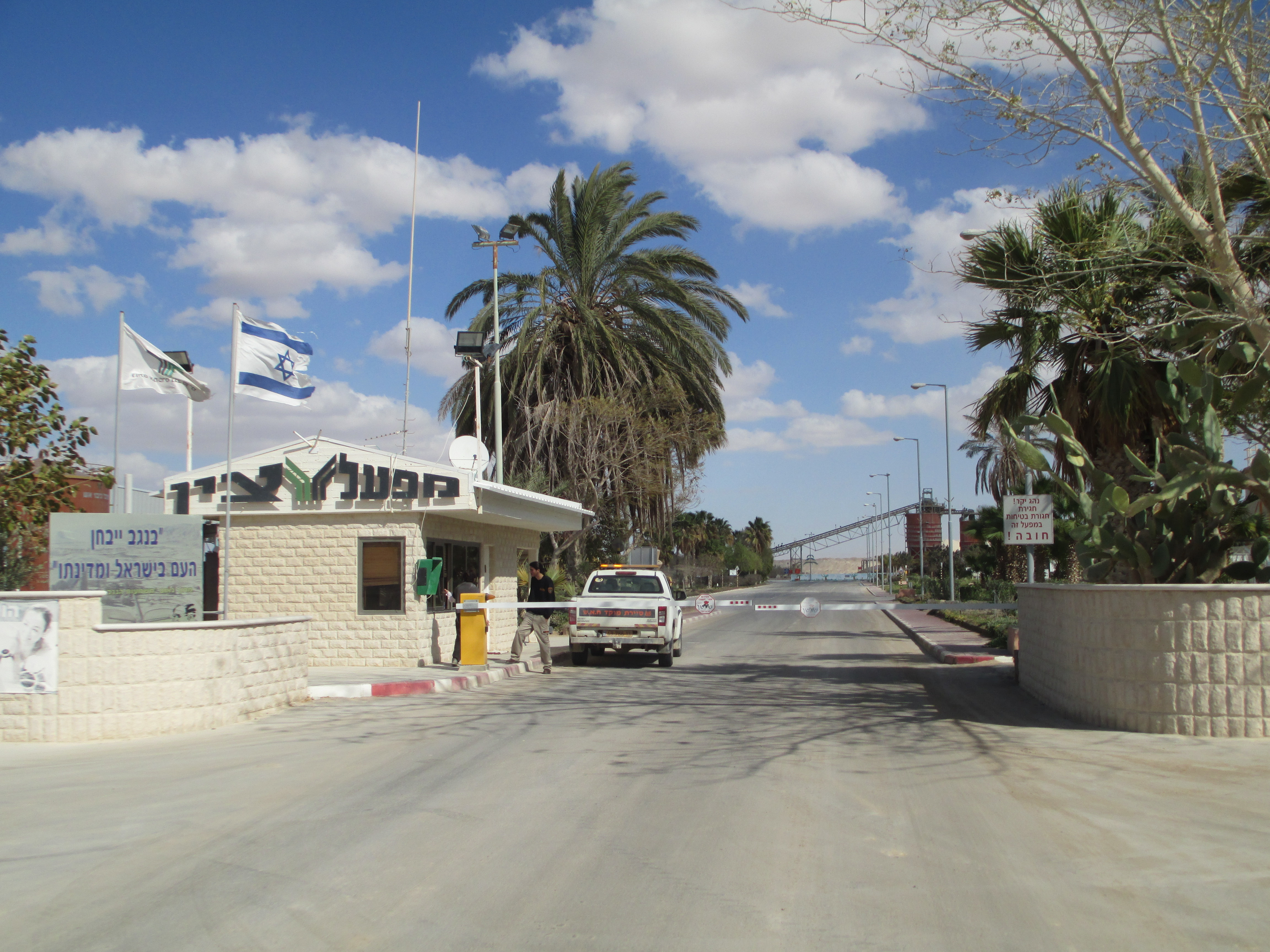 Zin phospate factory